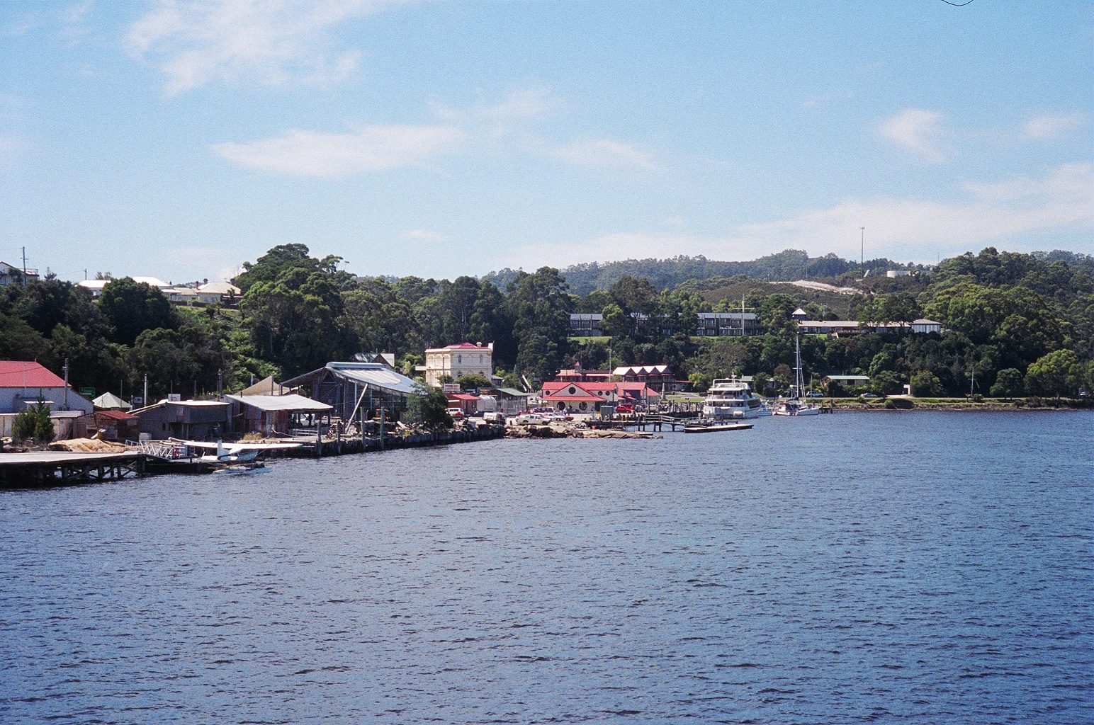 A view of the town Strahan (Tasmania, Australia) as taken from a boat in the harbor.